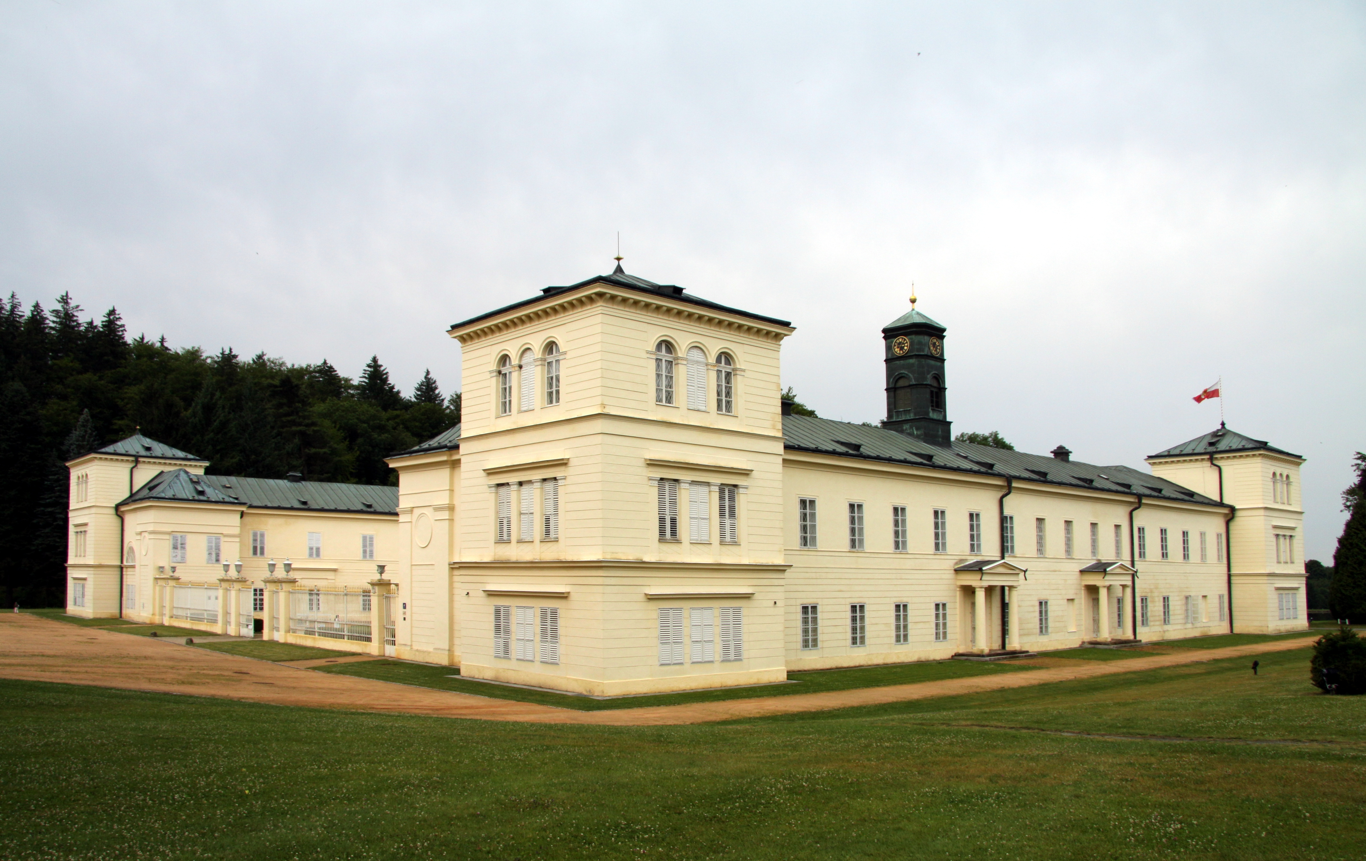 Kynžvart Chateau in Lázně Kynžvart, Cheb District, Czech Republic - Google Maps - Google Earth